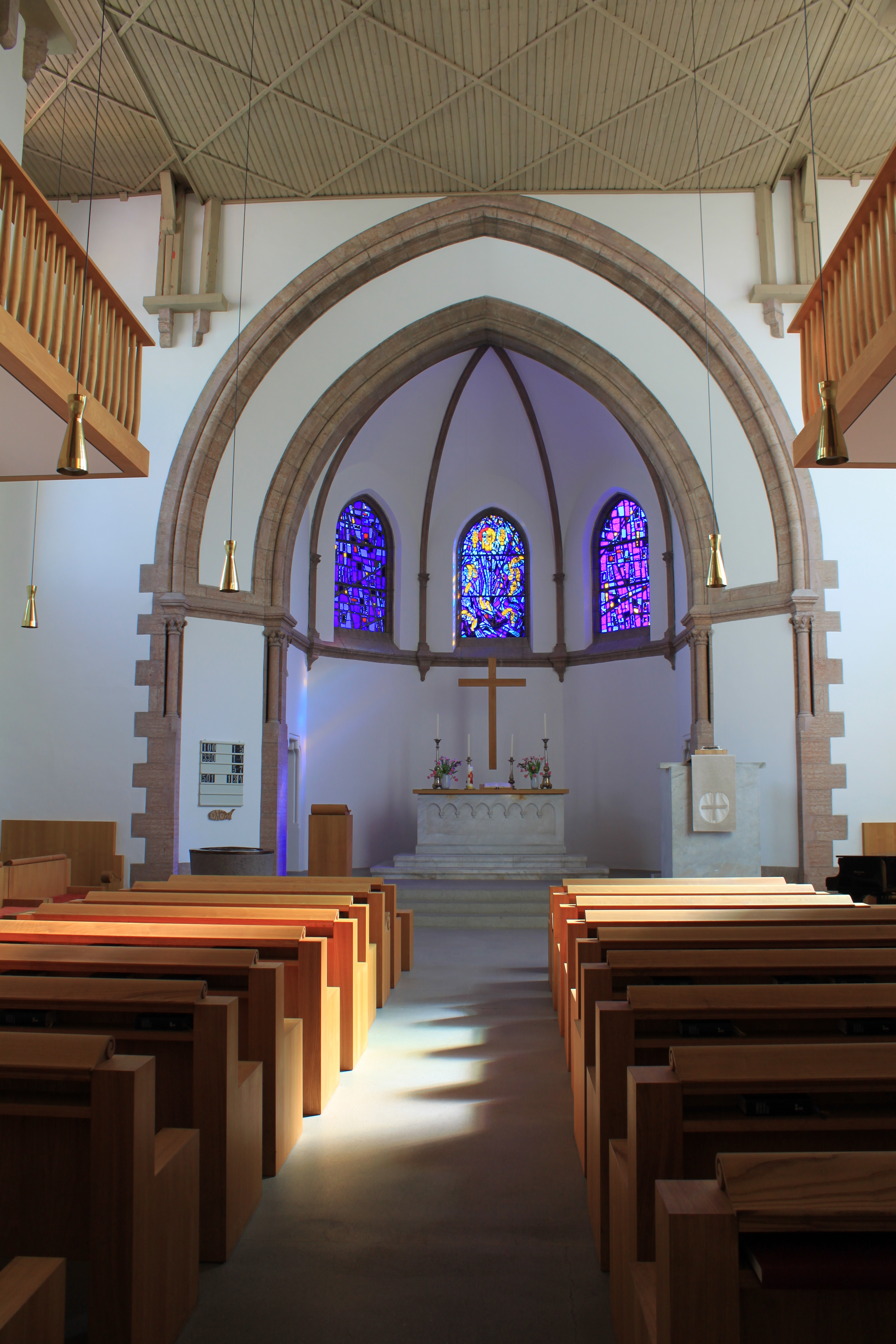 Evangelical Church in Bozen Gries Bolzano South Tyrol - interior